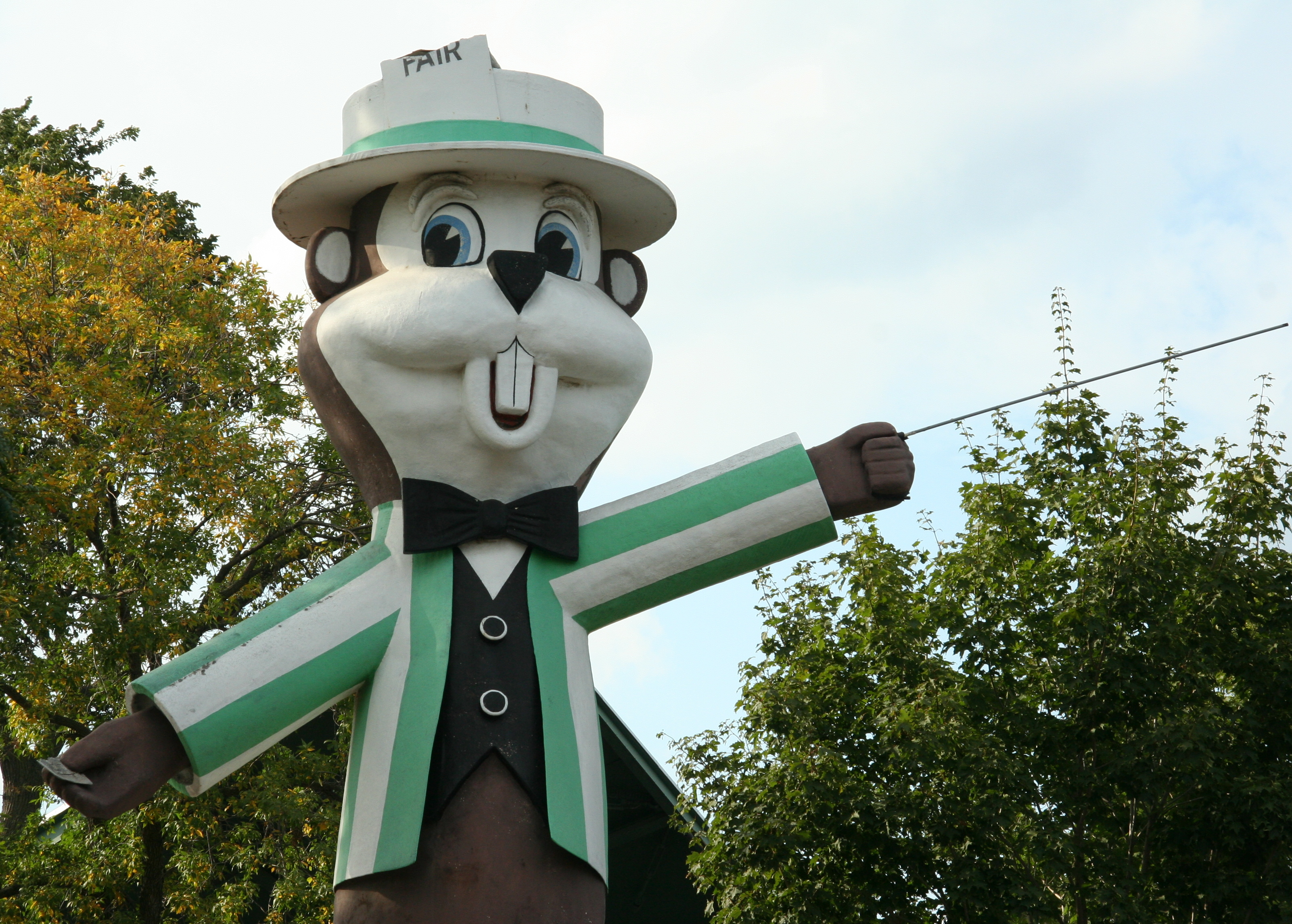 The Minnesota State Fair original mascot, Fairchild, on Cosgrove Street in Falcon Heights, Minnesota.